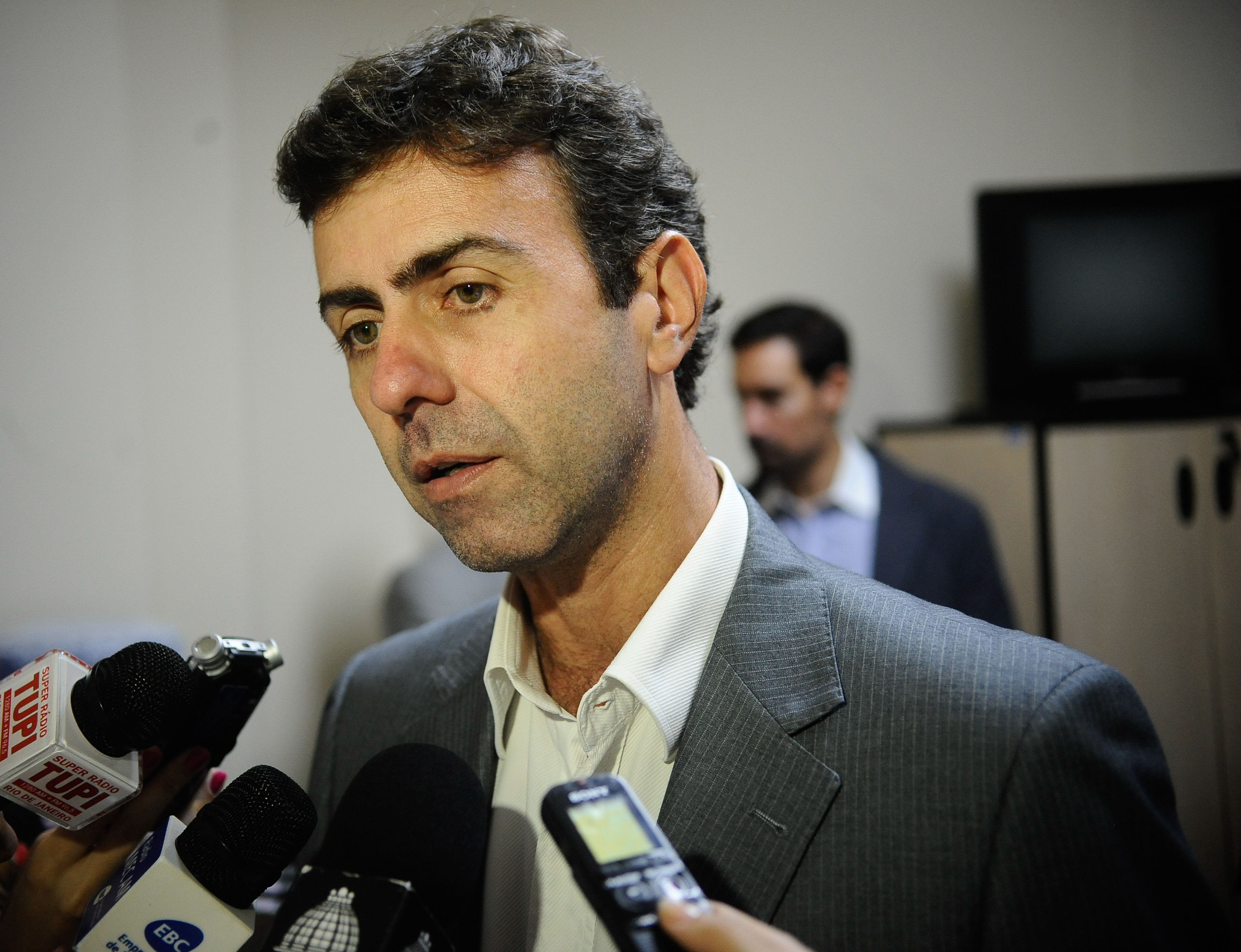 Marcelo Freixo. Photo by Tomaz Silva/Agência Brasil CCBY3.0